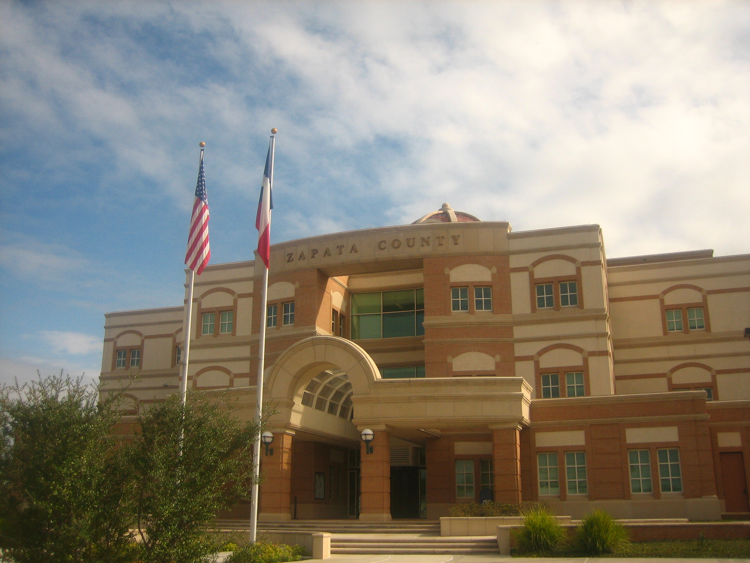 The Zapata County Courthouse in Zapata, Texas, United States. I took photo on Jan. 17, 2009.Billy Hathorn (talk) 03:37, 18 January 2009 (UTC)